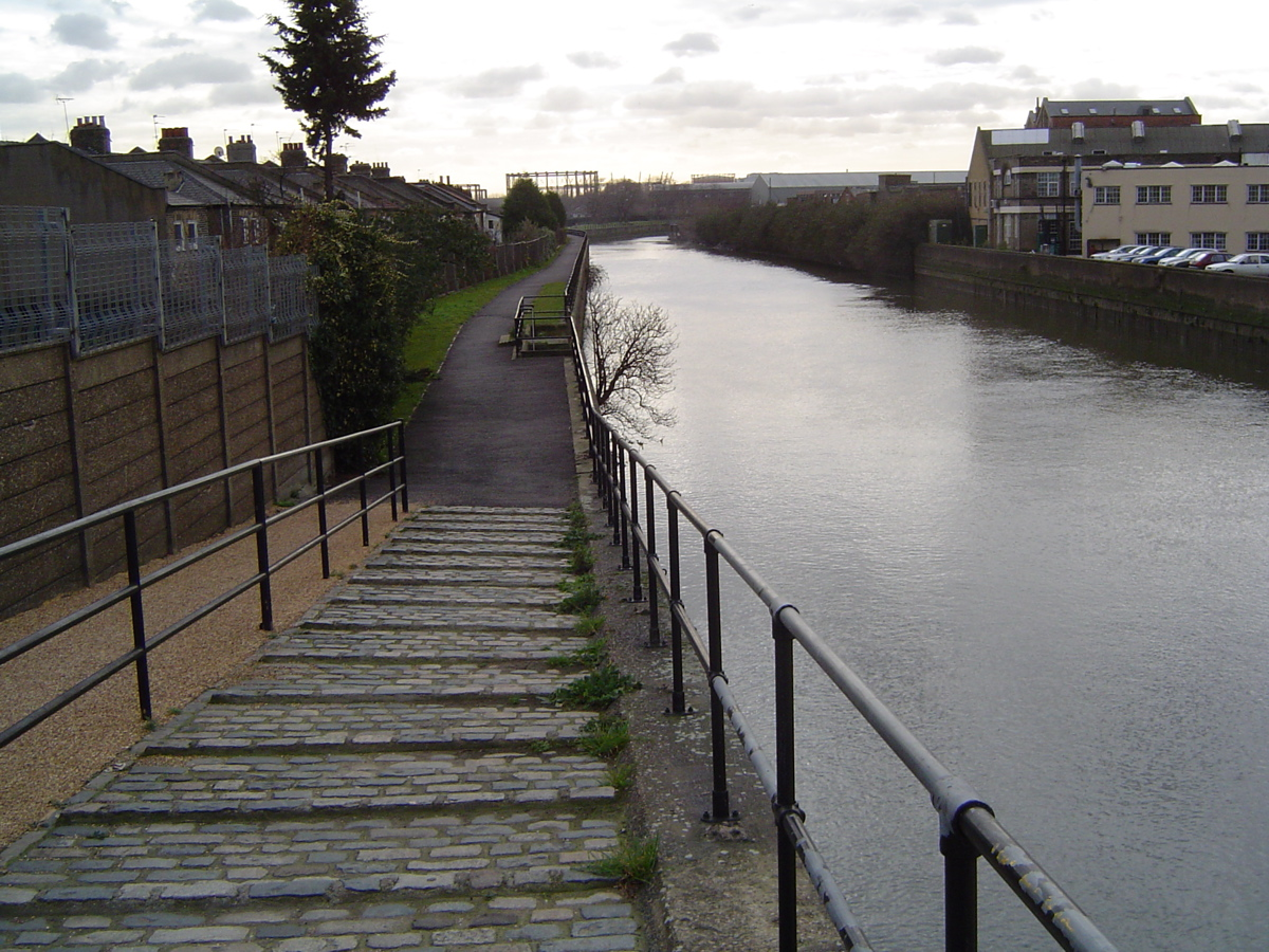 River Lea: Steps for horses and riverside railings at Three Mills River, London, UK. Seen from High Street, E15.